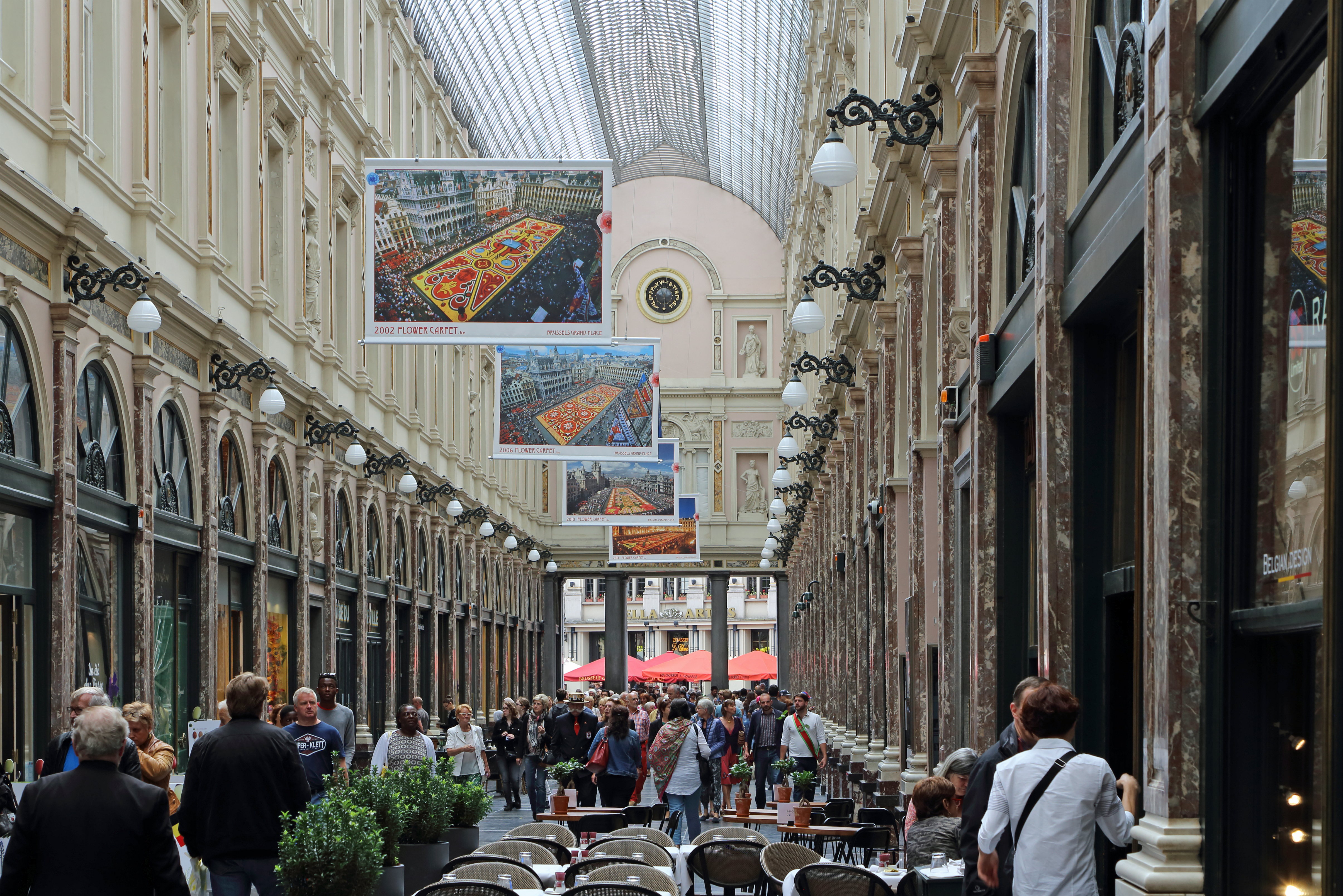 Brussels (Belgium): Koninginnegalerij / Galerie de la Reine